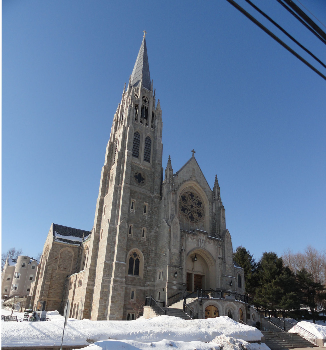 Holy Cross Church, New Britain Connecticut, Anthony J. DePace of New York, architect